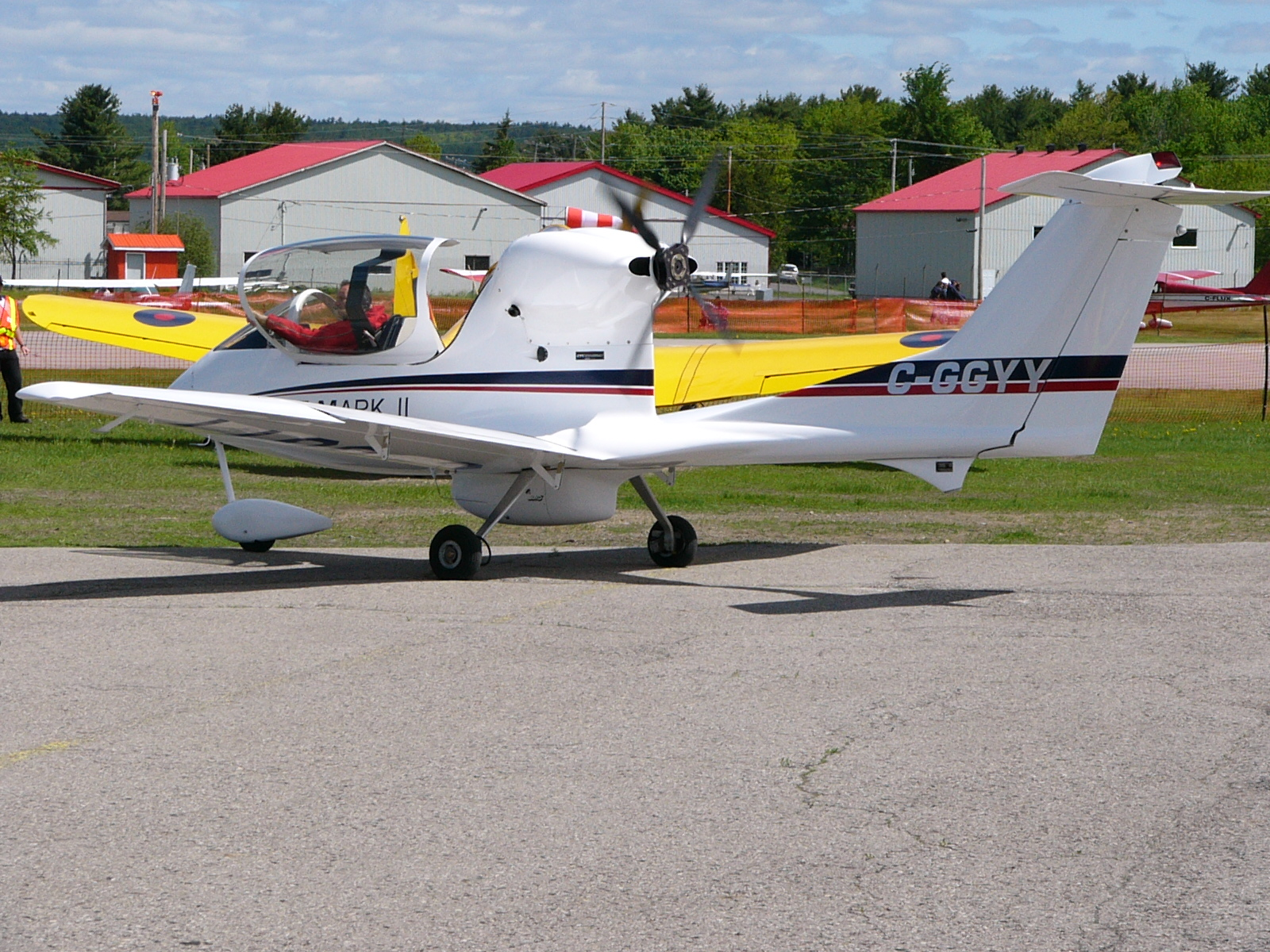 The prototype Partenair S-45 Mystere at the Lachute Fly-in